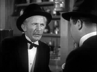 Cropped screenshot of Walter Brennan from the trailer for the film Affairs of Cappy Ricks